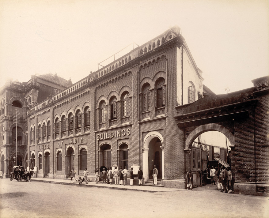 Photographer; E.O.S. and Company Medium; Photographic print, 20x24.5 centimetres Published: Times of India Sixty Years' Diamond Jubilee Album. November 3rd 1898. Caption: Building, corner of Elphinstone Circle (now Horniman Circle) * Cir. - 1880 - Genl. Nassau Lees, Proprietor